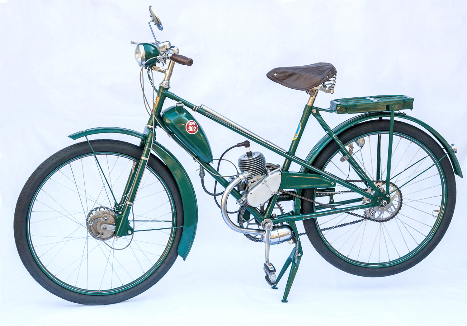 USSR motorized bicycle W-902 (1960) with D-4 engine